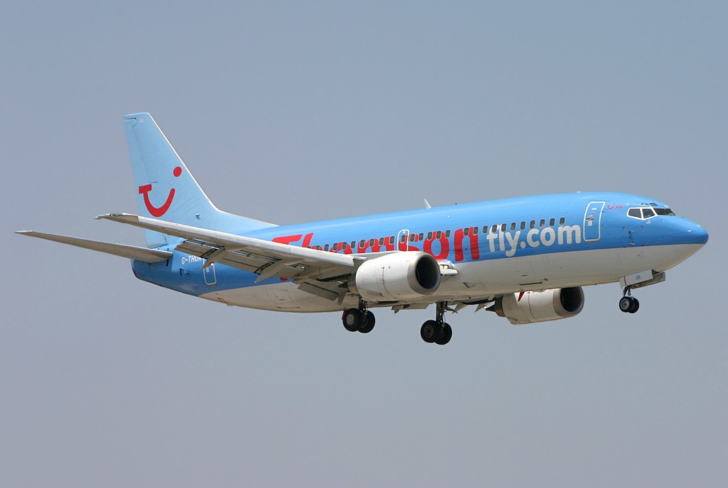 Boeing 737-36Q Thomsonfly (G-THOK) at Faro Airport